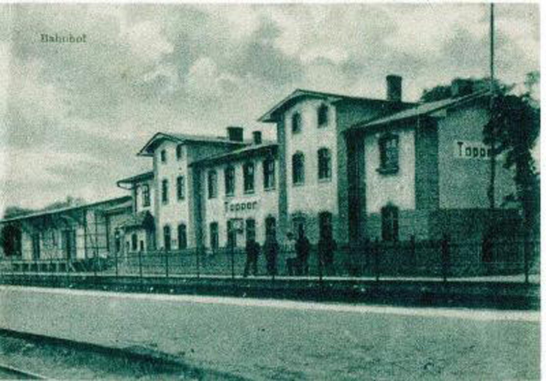 Bahnhof Topper